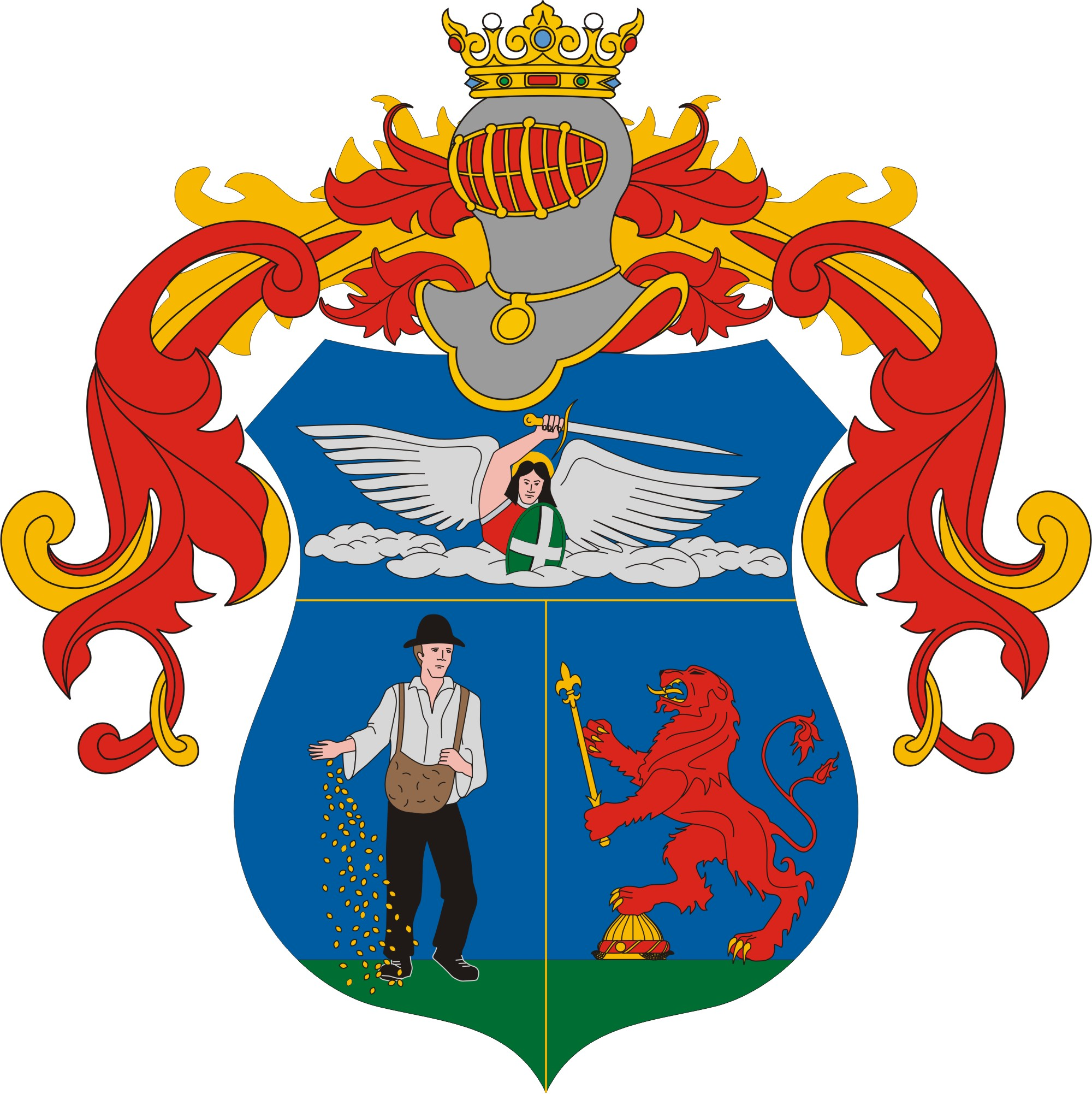 Coat of arms of Mátételke, Hungary